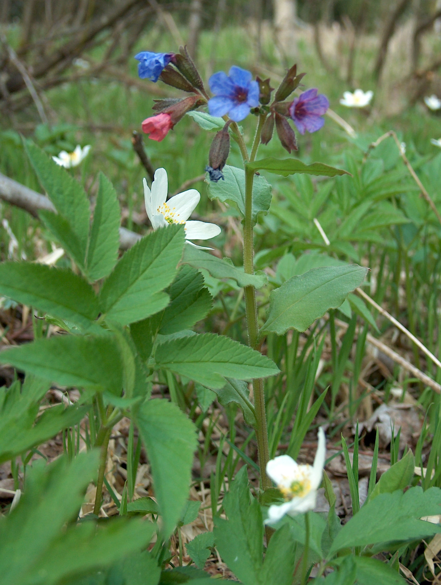 Pulmonaria obscura, Dumort - Lemmenlaakso Nature Reserve, Järvenpää, Finland